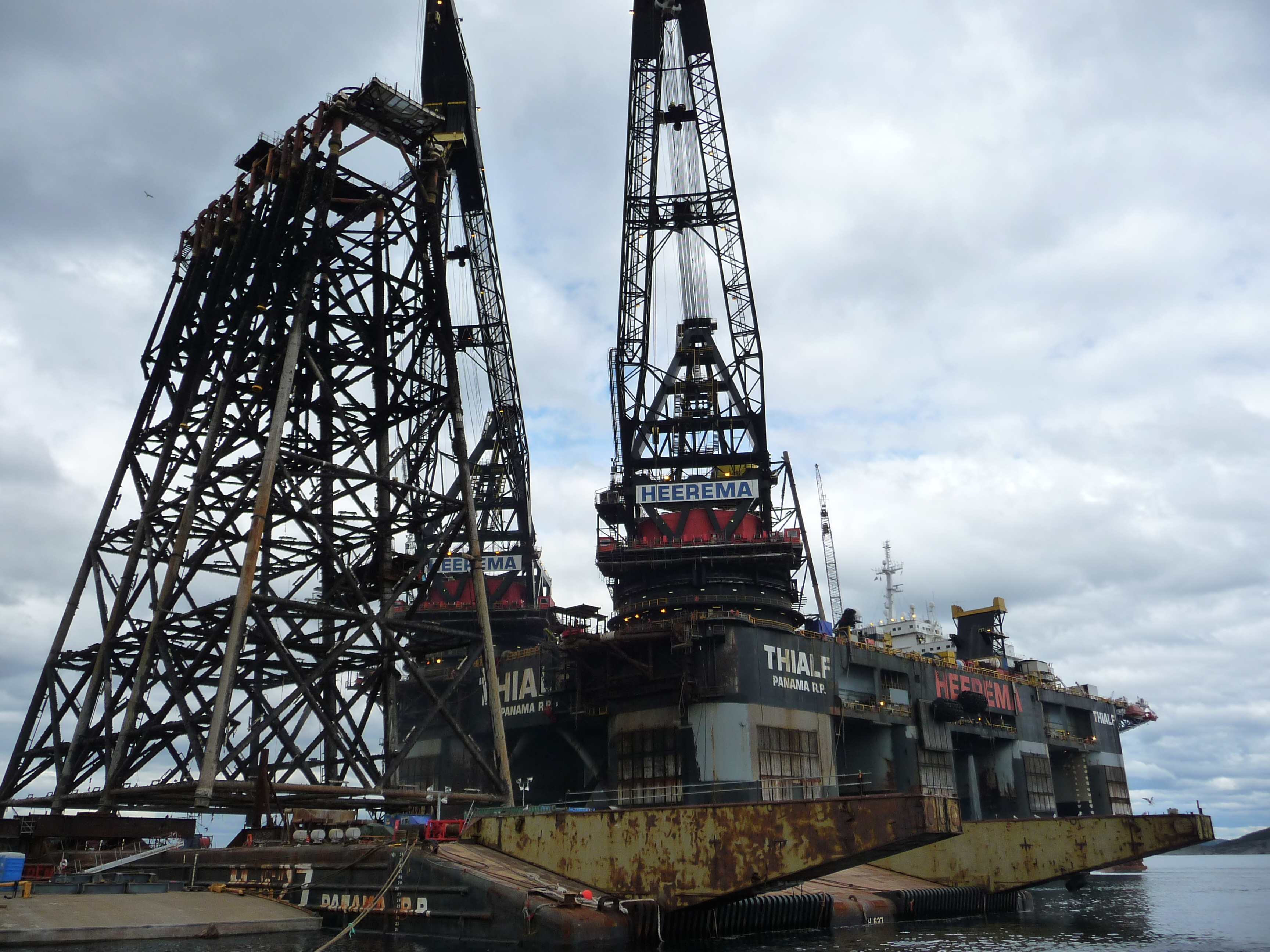 Eko 2/4R jacket after offloading by SSCV Thialf on barge H-627 at Mekjarvik